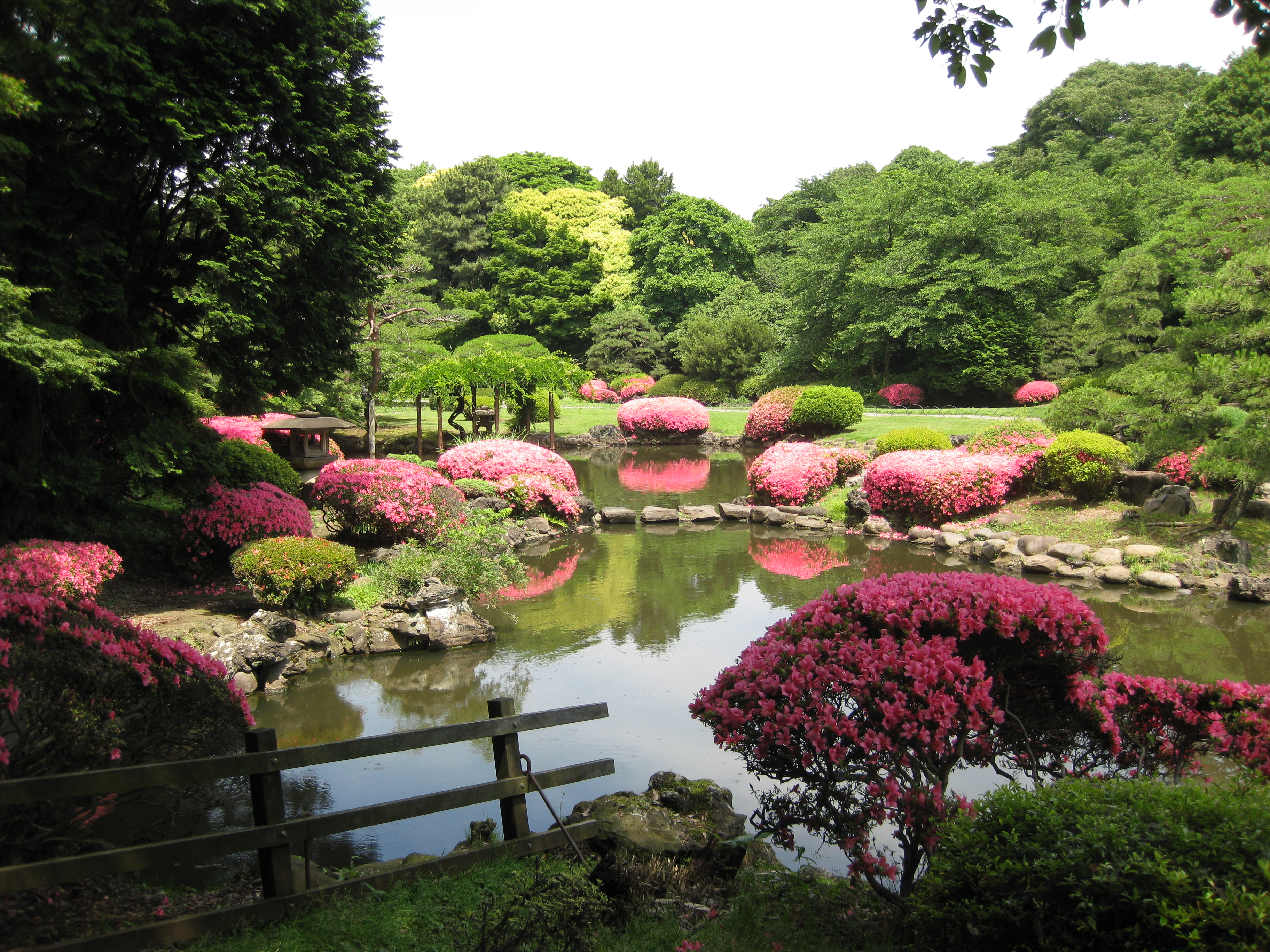 Impression of Shinjuku Gyoen, Tokyo. Photo taken from some metre away from the pavilion featured in the 2013 film Garden of Words.